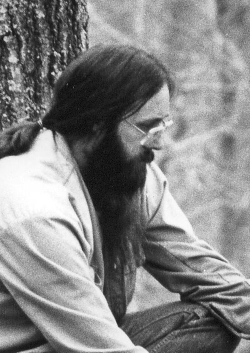 Albert K. Bates works on a Kaypro-10 computer from his home at The Farm in Summertown Tennessee in 1981. In the back deck of Laughing Creek Lodge overlooking the Cox Branch of the Swan Creek.